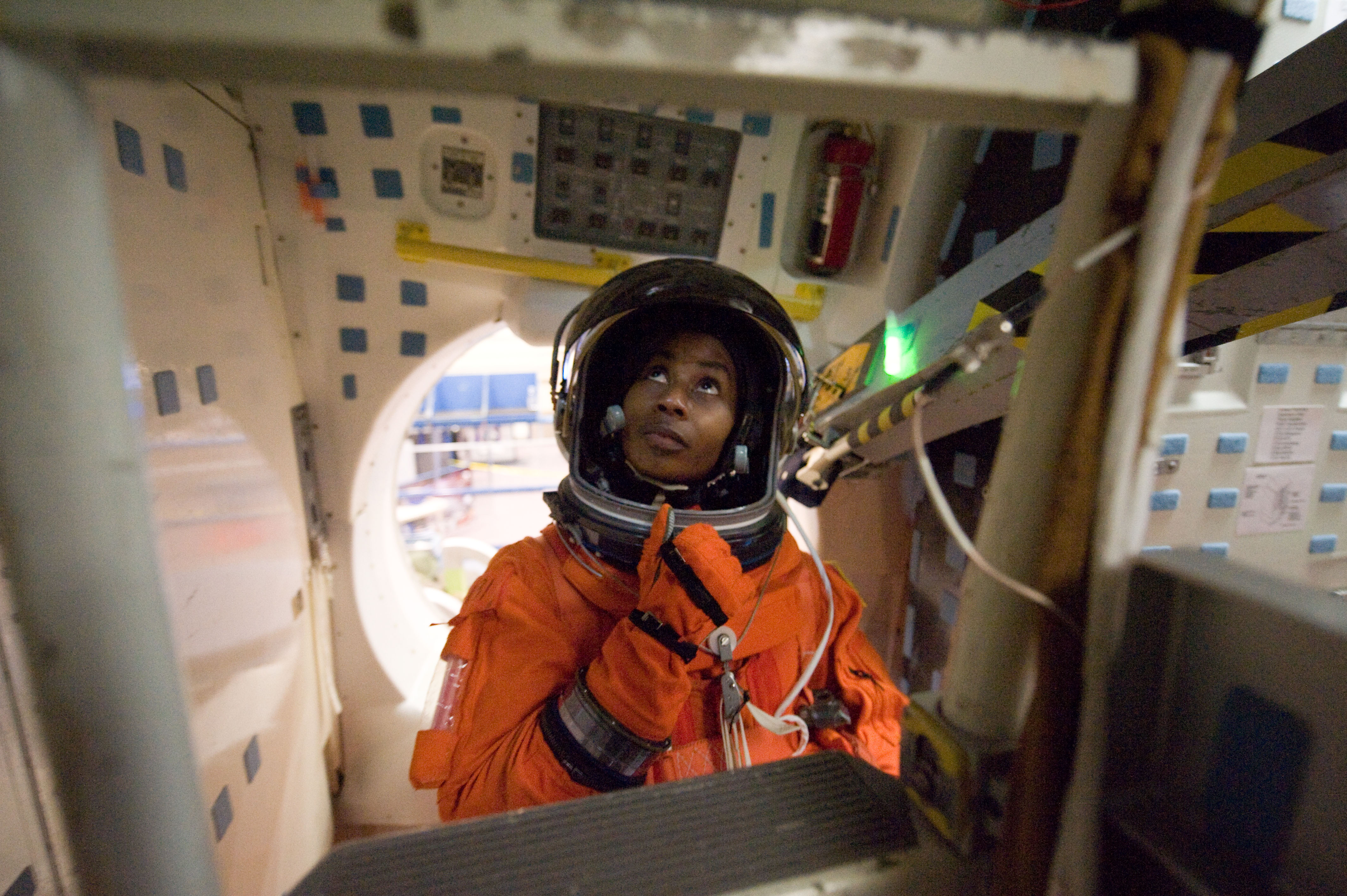 NASA astronaut Stephanie Wilson, STS-131 mission specialist, attired in a training version of her shuttle launch and entry suit, participates in a training session in one of the full-scale trainers in the Space Vehicle Mock-up Facility at NASA's Johnson Space Center.